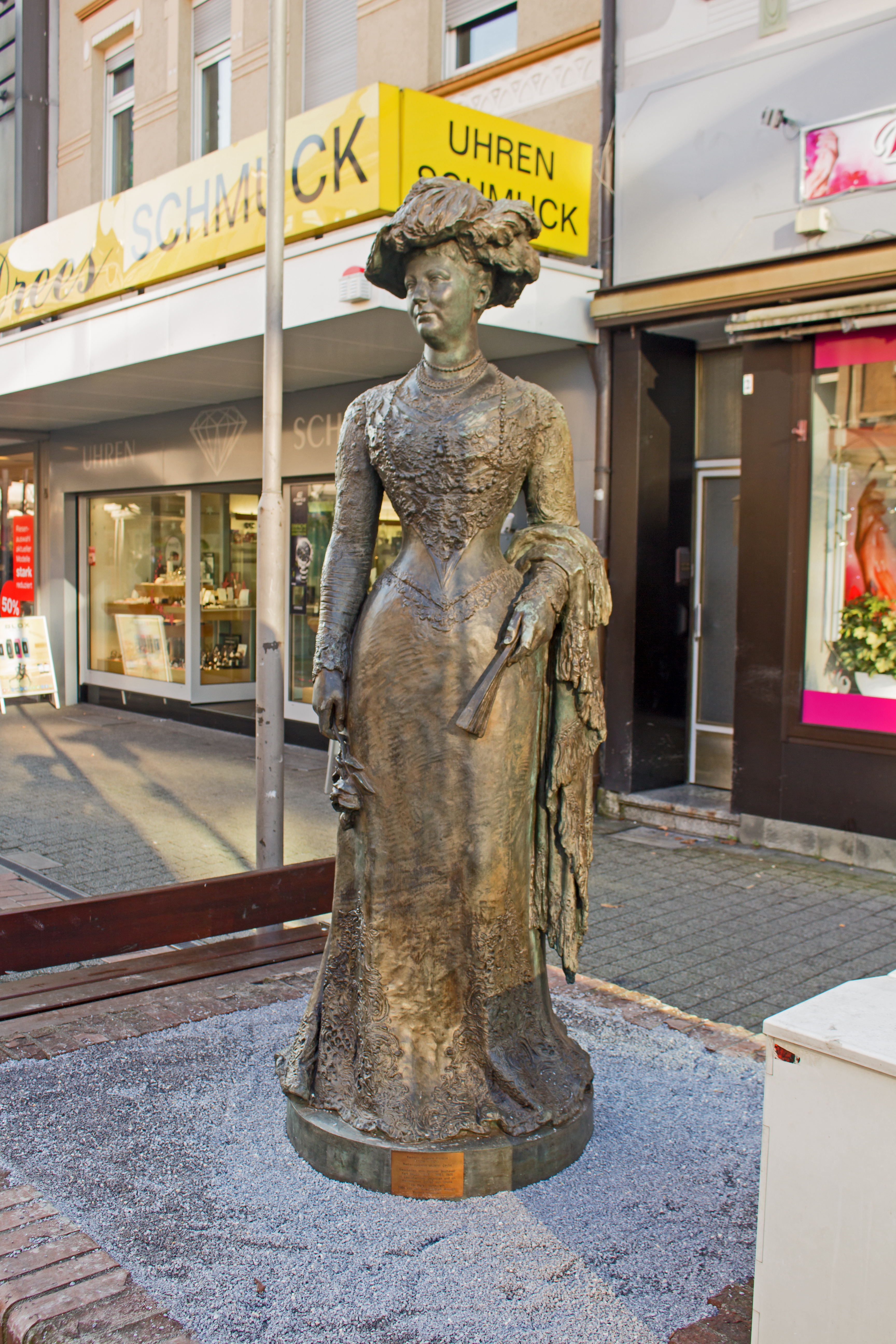 statue of Auguste Viktoria Friederike Luise Feodora Jenny of Schleswig-Holstein, German empress and queen of Prussia, Hülsstraße - Marl, Nord Rhine-Westphalia, Germany